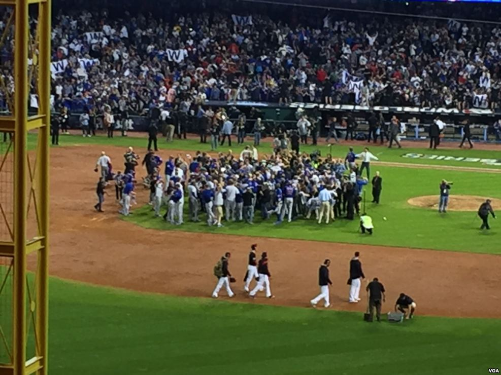 The Chicago Cubs celebrate at Progressive Field in Cleveland after defeating the Indians 8-7 in Game 7 of the World Series, Nov. 2, 2016. (K.Farabaugh-VOA)